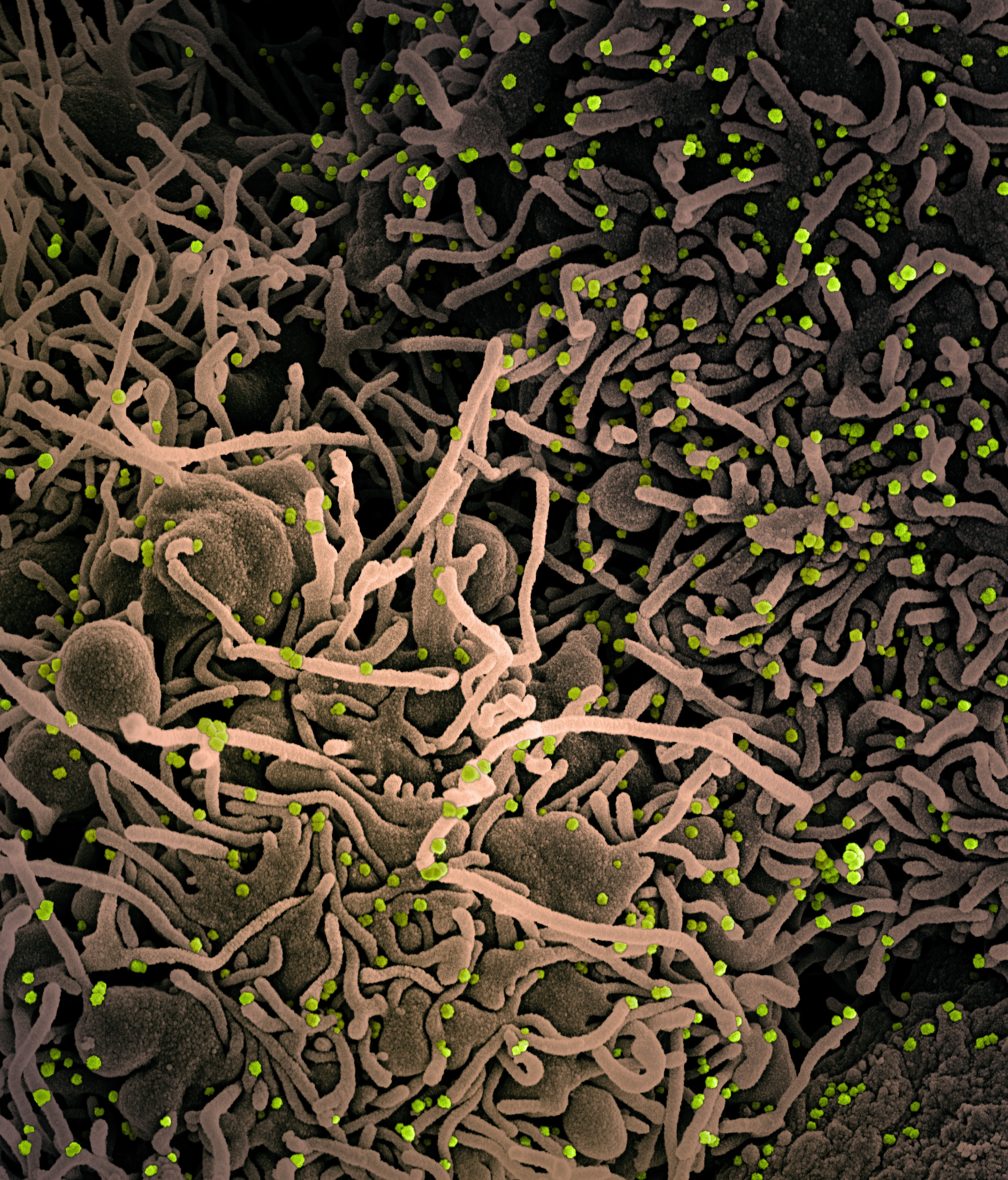 Colorized scanning electron micrograph of a VERO E6 cell (tan) exhibiting elongated cell projections and signs of apoptosis, after infection with SARS-COV-2 virus particles (green), which were isolated from a patient sample. Image captured at the NIAID Integrated Research Facility (IRF) in Fort Detrick, Maryland. Credit: NIAID